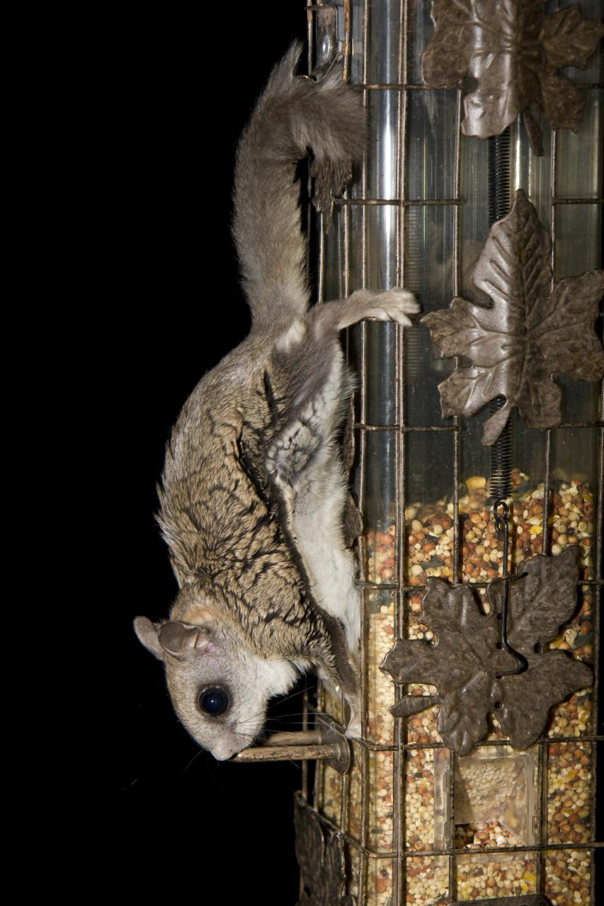 Flying Squirrel